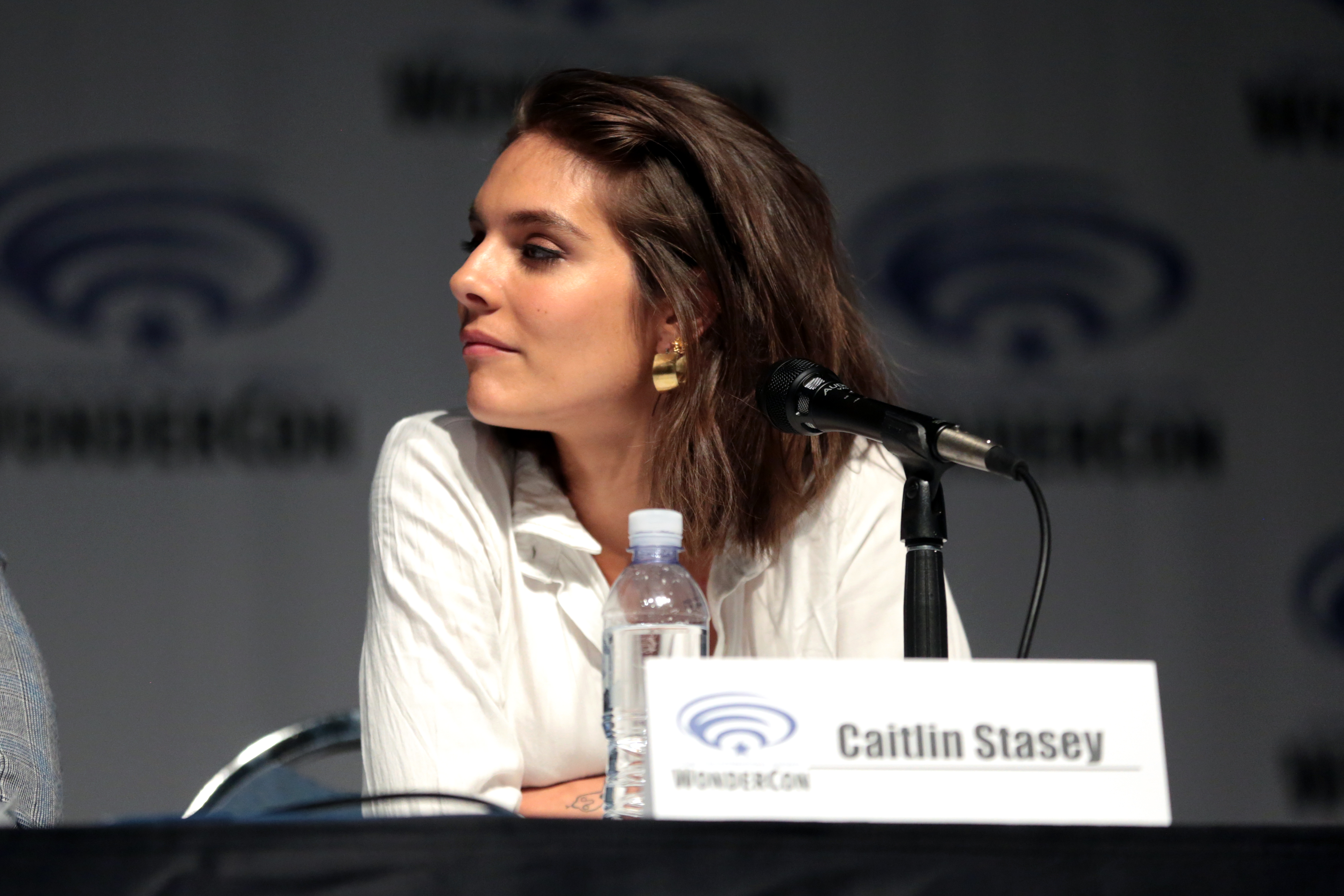 Caitlin Stasey speaking at the 2017 WonderCon, for "APB", at the Anaheim Convention Center in Anaheim, California.